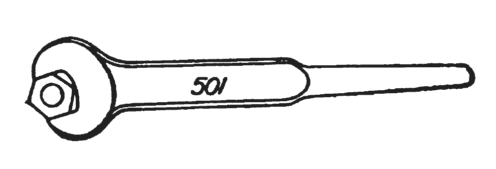 Spud wrench, aka construction wrench, aka podging spanner, aka podger. Close up derived from Colvin FH and Stanley FA (1910). Machine shop primer. McGraw-Hill, New York and London, p. 65. Derivative file created 2010-10-24. In this book it was called a construction wrench.